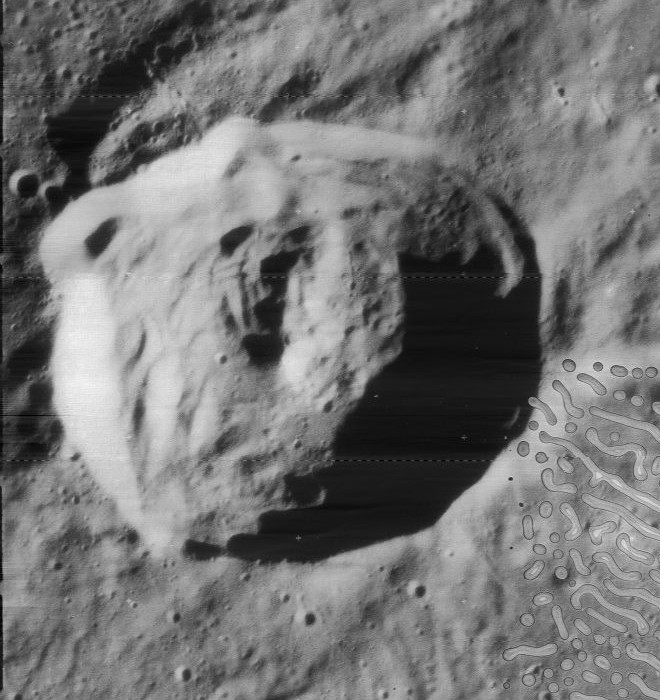 C. Mayer crater, on the moon. Irregular pattern in lower right is blemish on original image.